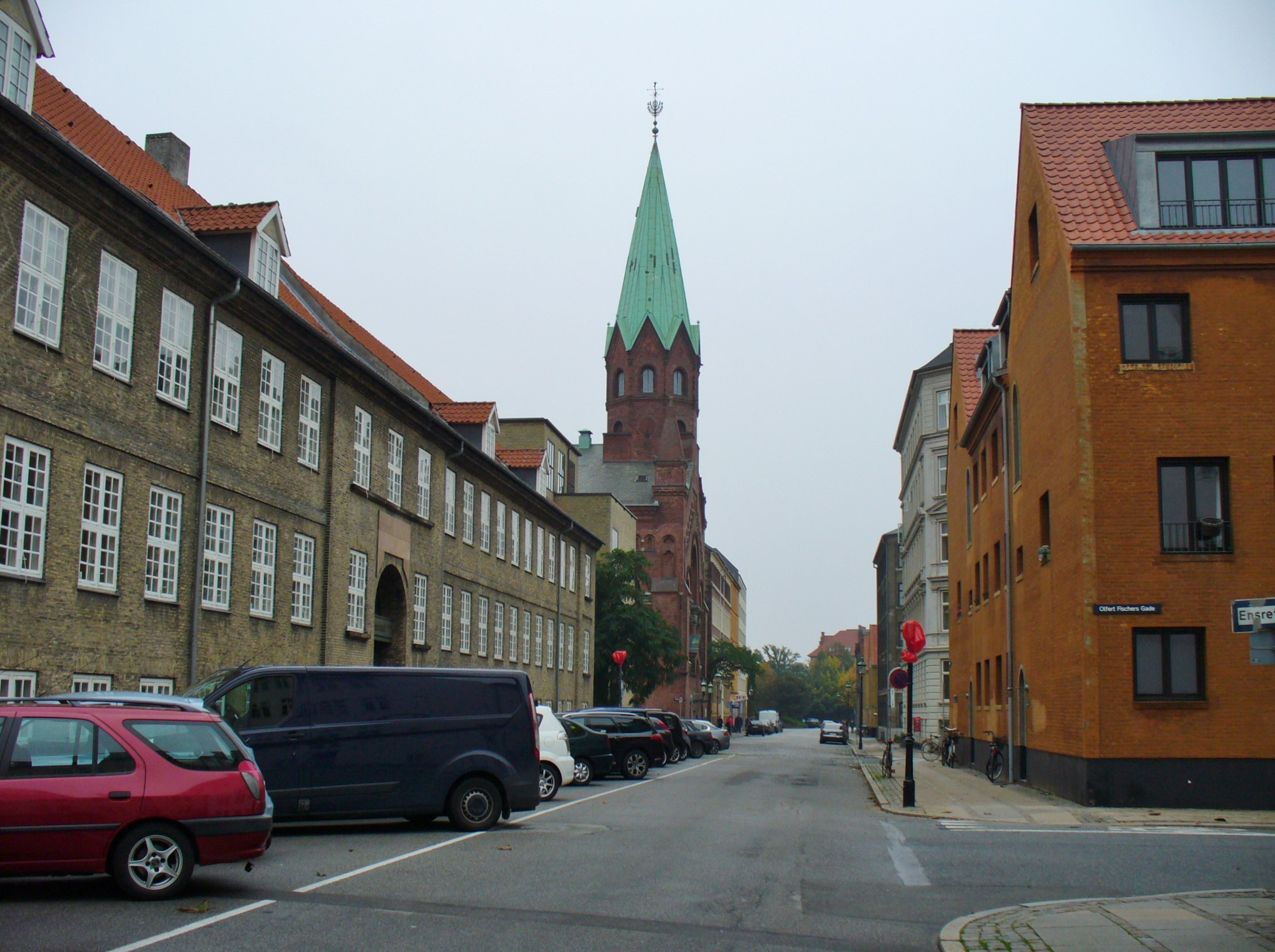 The street Rigensgade with the church tower of Jerusalemskirken in Indre By in Copenhagen.